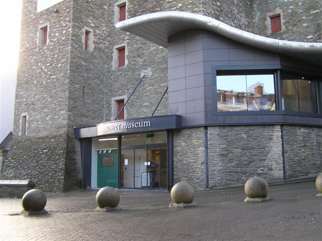 Tower Museum, Derry / Londonderry It is located within the walled area of the city, opposite the Guildhall